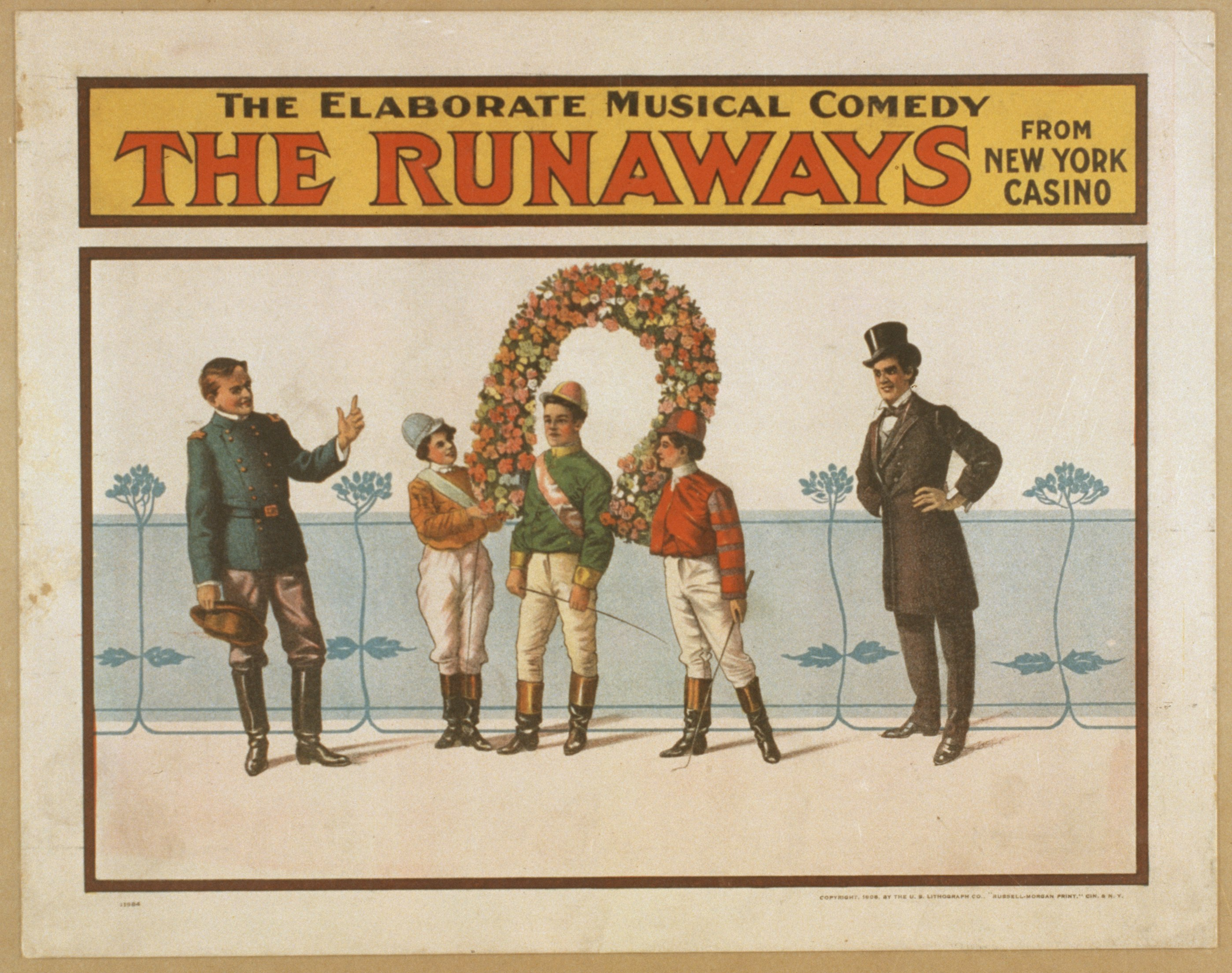 Title: The runaways the elaborate musical comedy from New York Casino. Abstract: 1 print : color lithograph ; sheet 28 x 36 cm. (poster format)